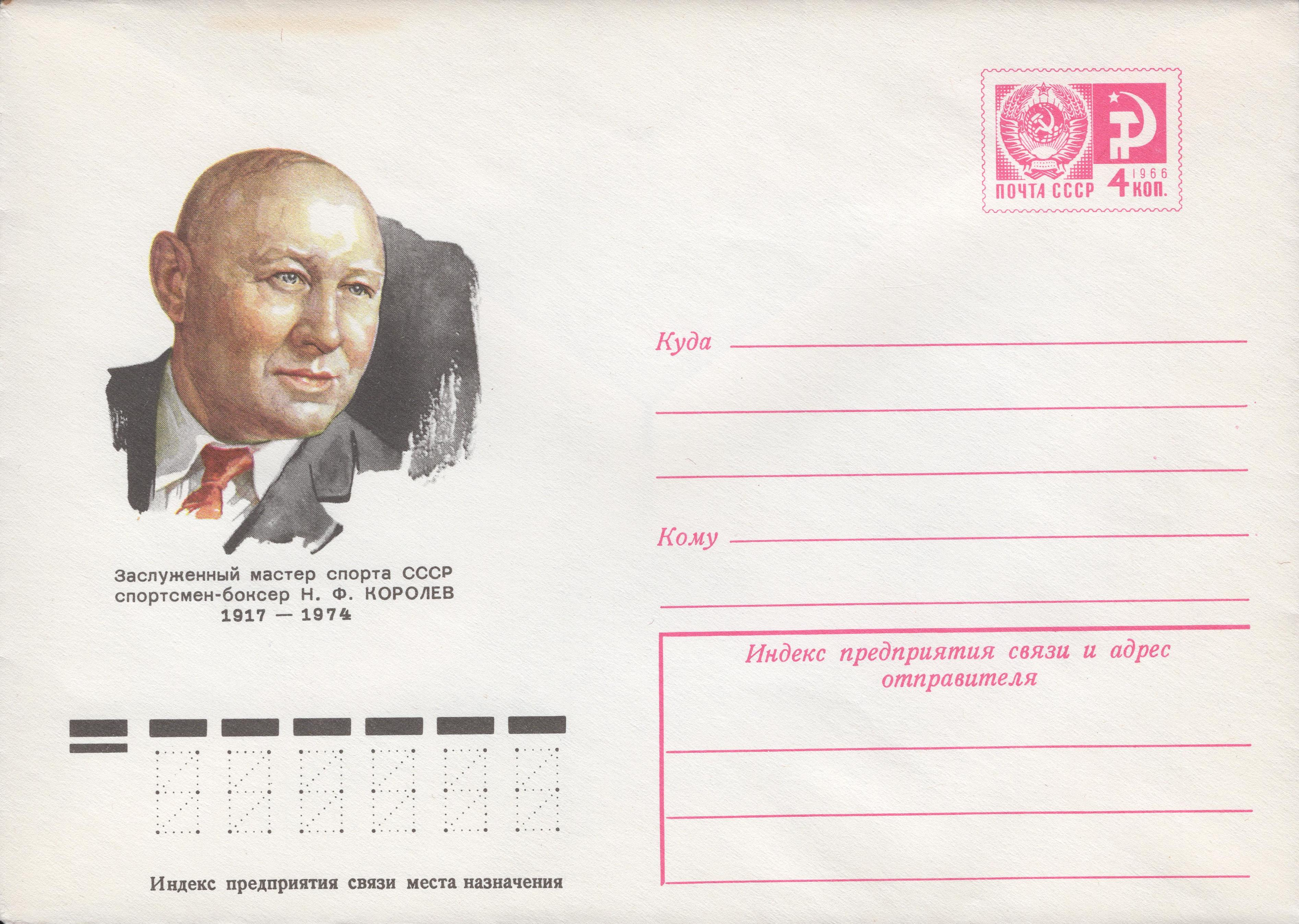 Merited Master of Sport of the USSR boxer Nikolay Korolyov. 1917-1974. Series: Merited Masters of Sport of the USSR. Artist Peter Bendel.